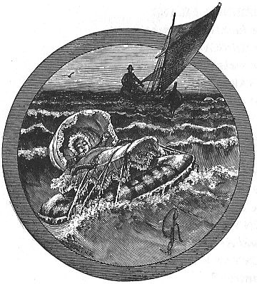 An illustration from André Laurie's (pseudonym of Jean François Paschal Grousset) and Jules Verne's novel "The Waif of the Cynthia" (1884) drawn by George Roux.